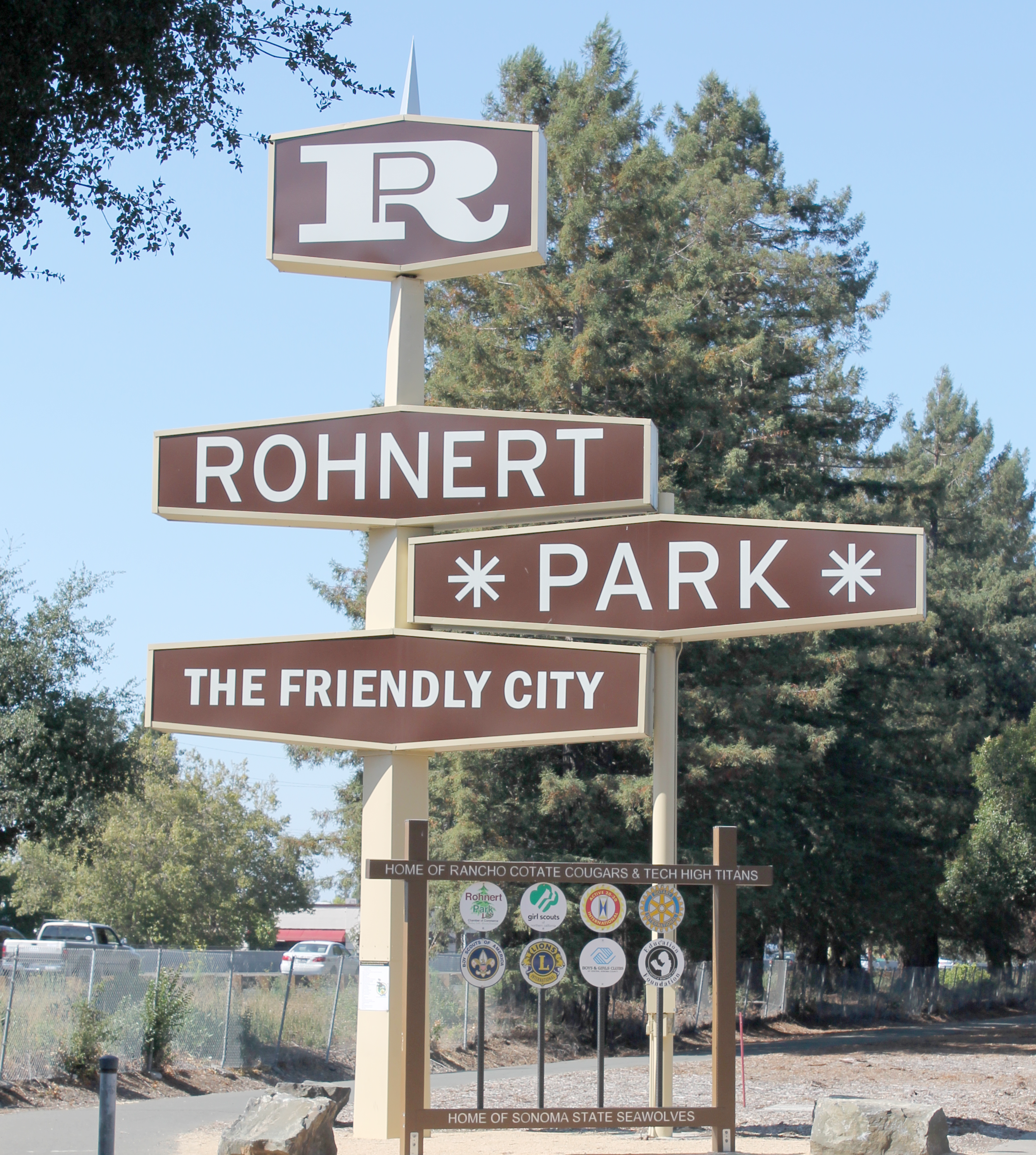 free-standing sign between Commerce Boulevard and U.S. 101 near Southwest Boulevard in Rohnert Park, California, United States